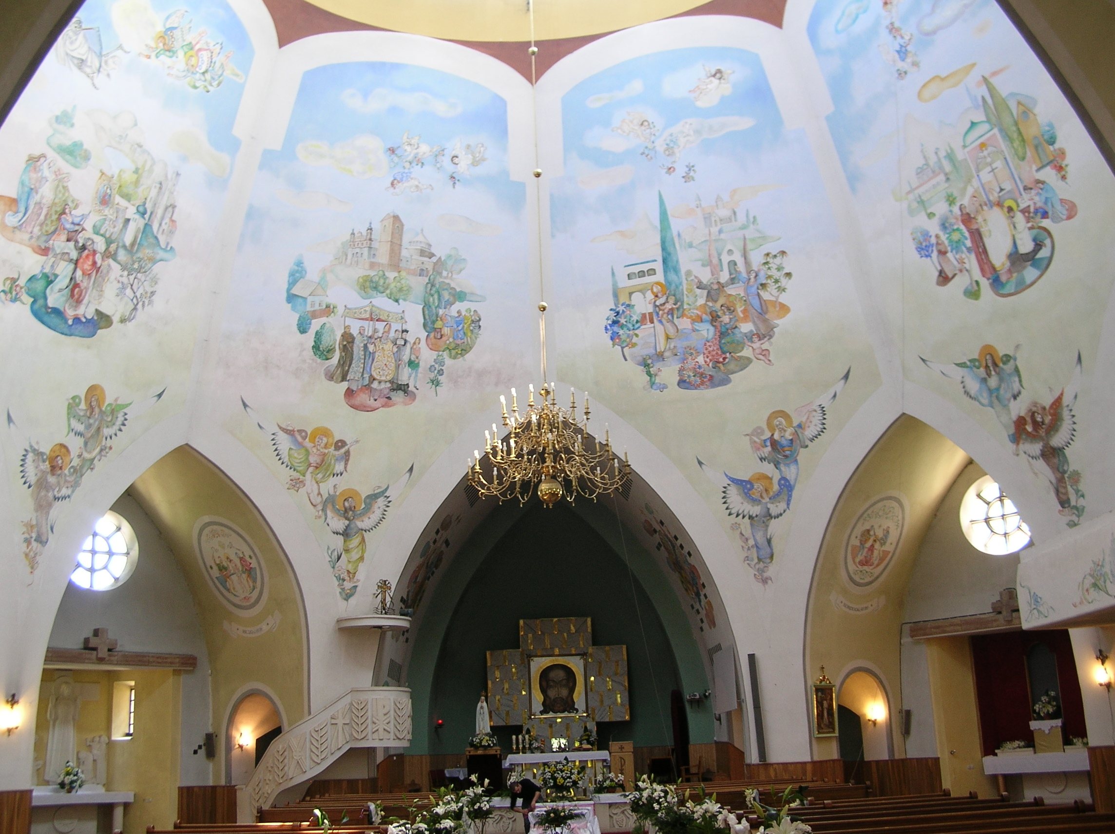 Interior of the church in Zagnańsk